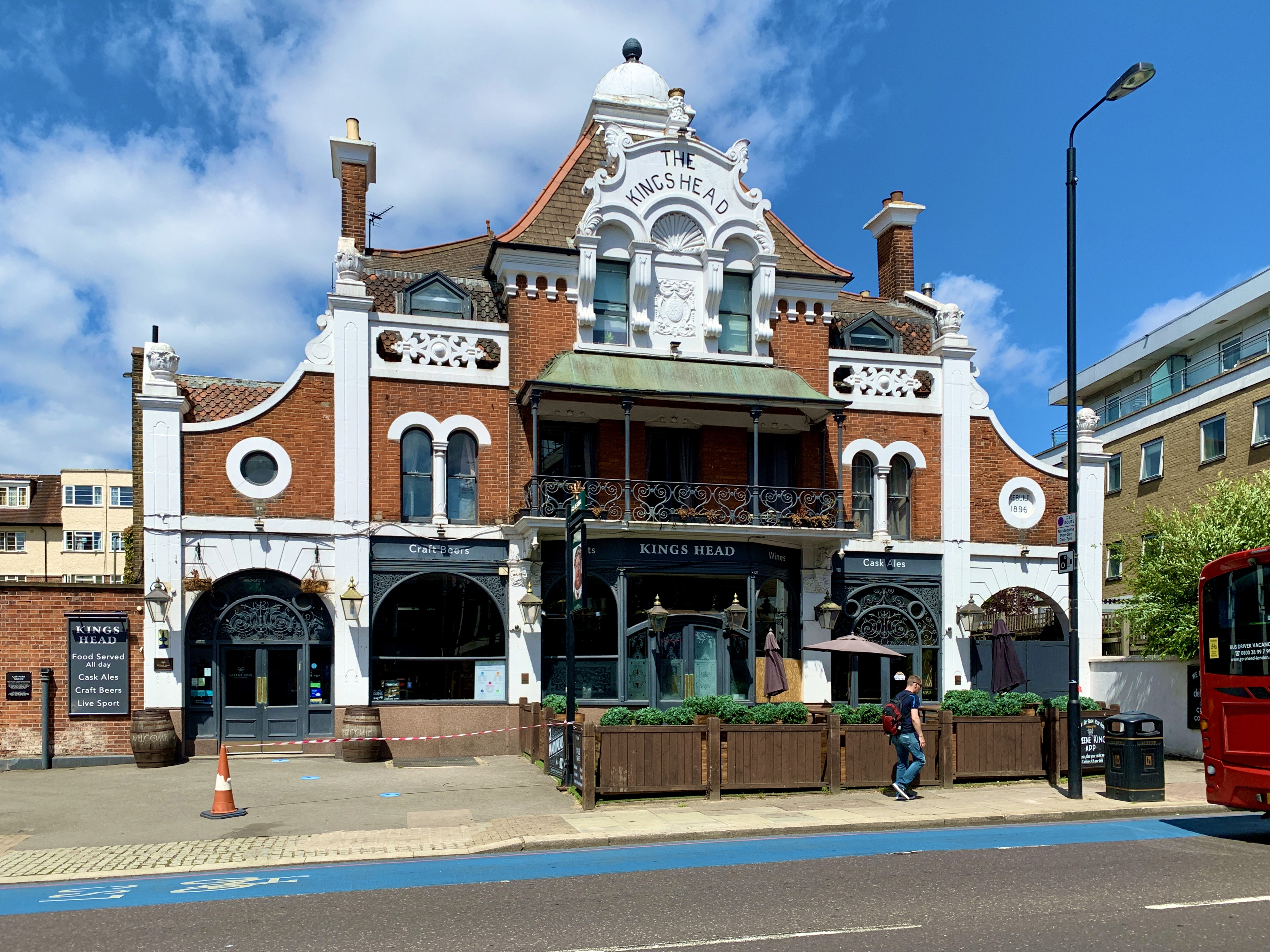 Pub King's Head in Tooting, London Taken during my Northern Line Tube Walk.